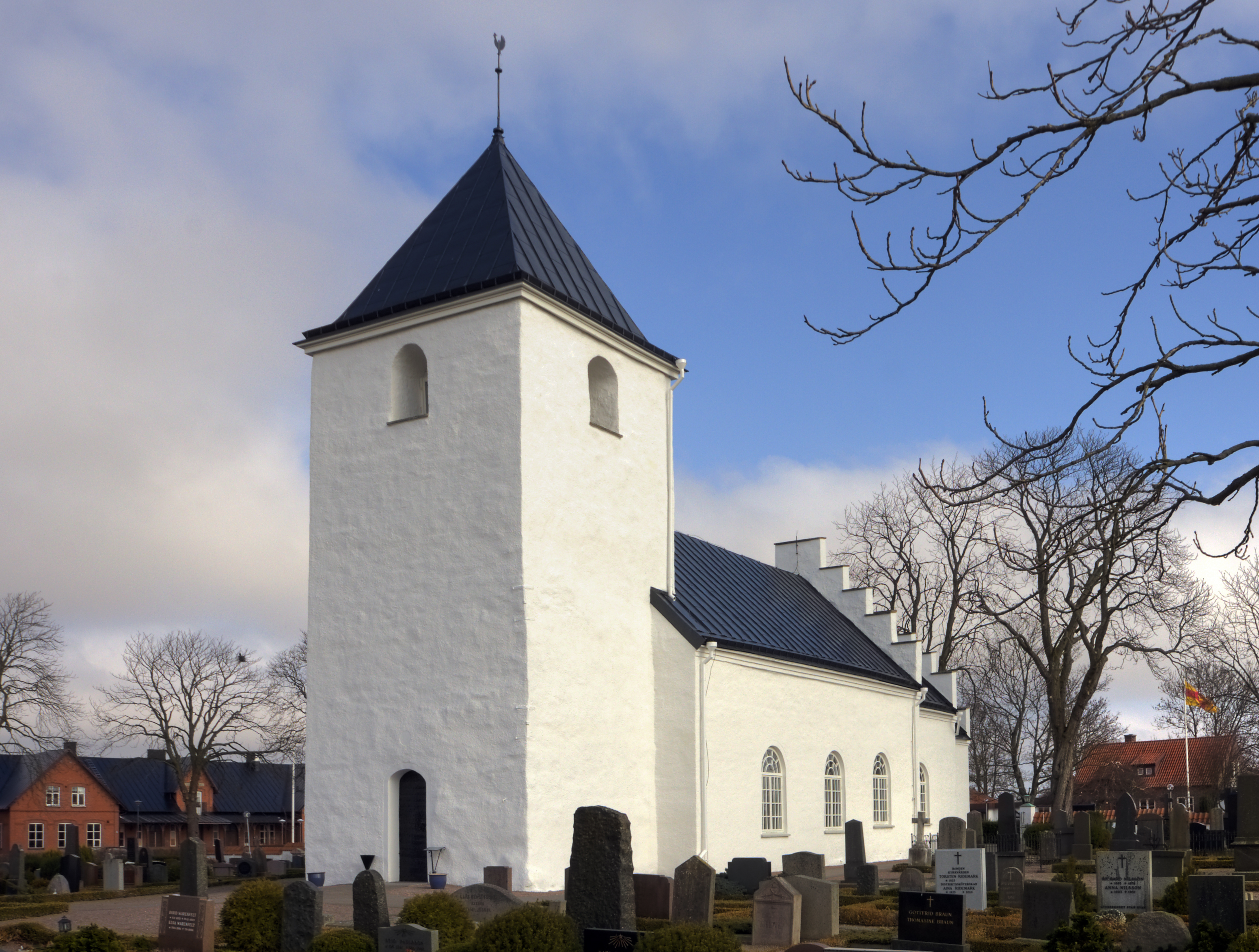 Bjuvs kyrka, parish church of Bjuv Parish in Bjuv, Sweden.